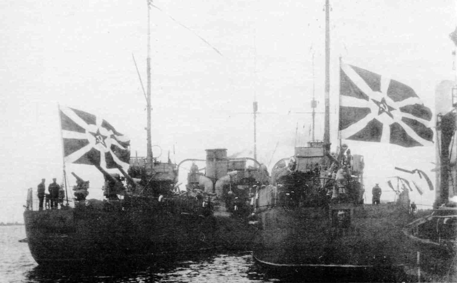 Soviet destroyers Voikov or Volodarskiy and Kalinin.